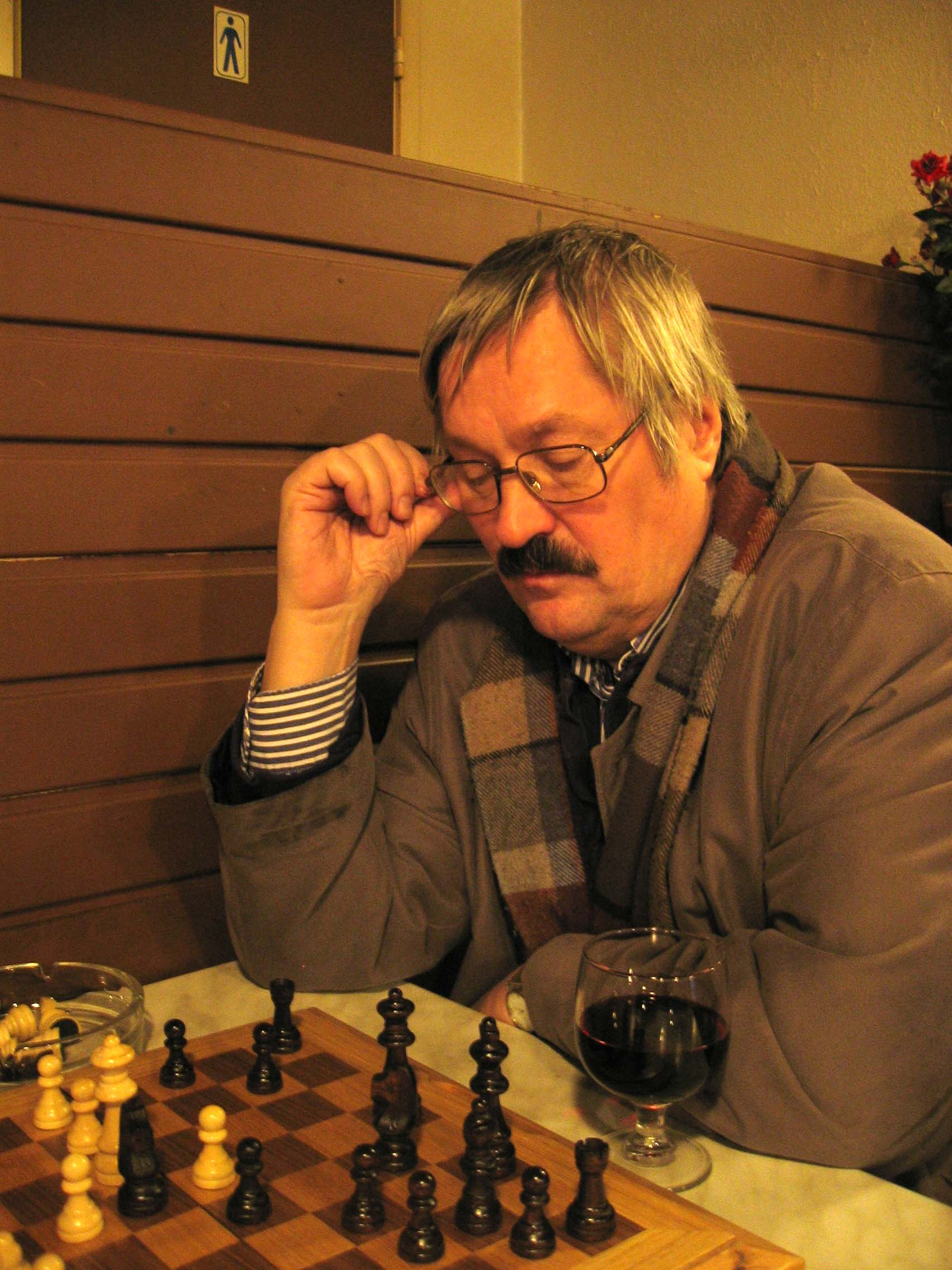 The Finnish poet Pentti Saaritsa playing chess. Photo by Otso Kantokorpi, 2006.